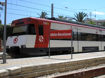 Alfafar-Benetússer station (Valencia local railway): platform and train.